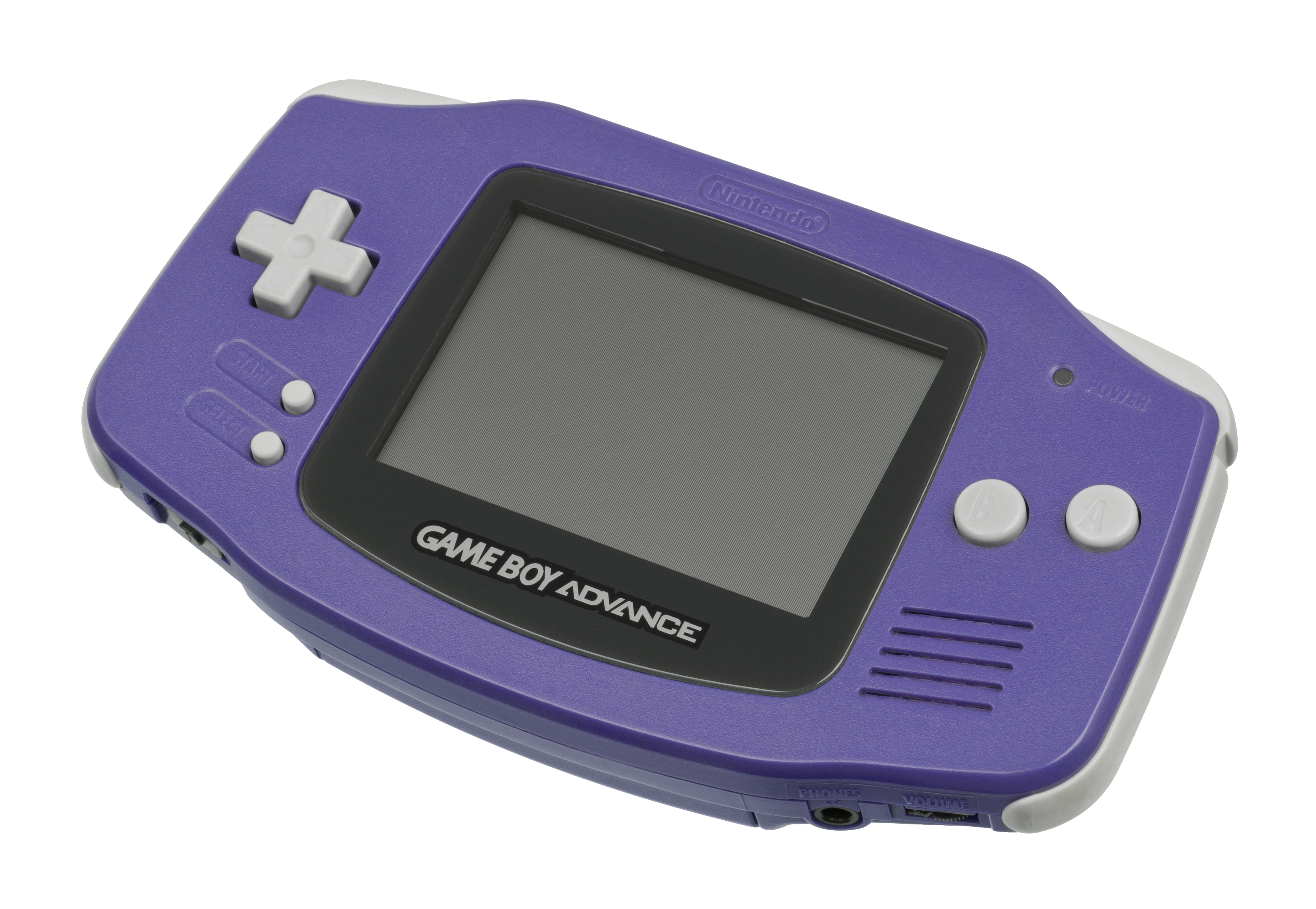 The Game Boy Advance (GBA), a 32-bit handheld gaming system made by Nintendo and released in 2001. This is the first model in the GBA line-up, which features a non-backlit color screen and runs off of two AA batteries. This is a "Indigo" model, a purple color that matched the GameCube, that was one of the three colors available for the North American launch.